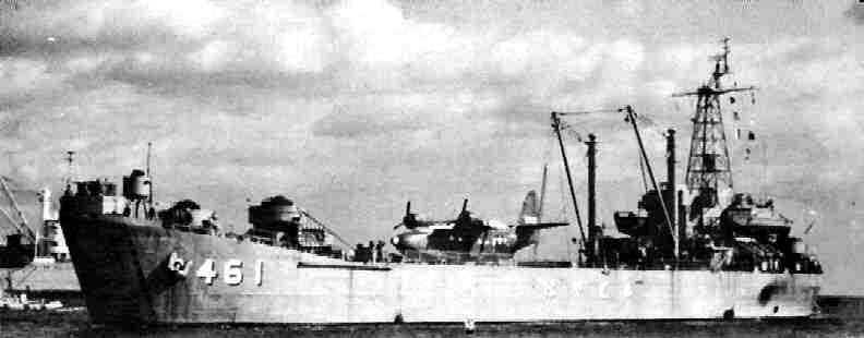 Ex-USS Hamilton County (LST-802) in Japanese service as JDS Hayatomo (MSL-461) at anchor, date and location unknown. Official US Navy photo taken from